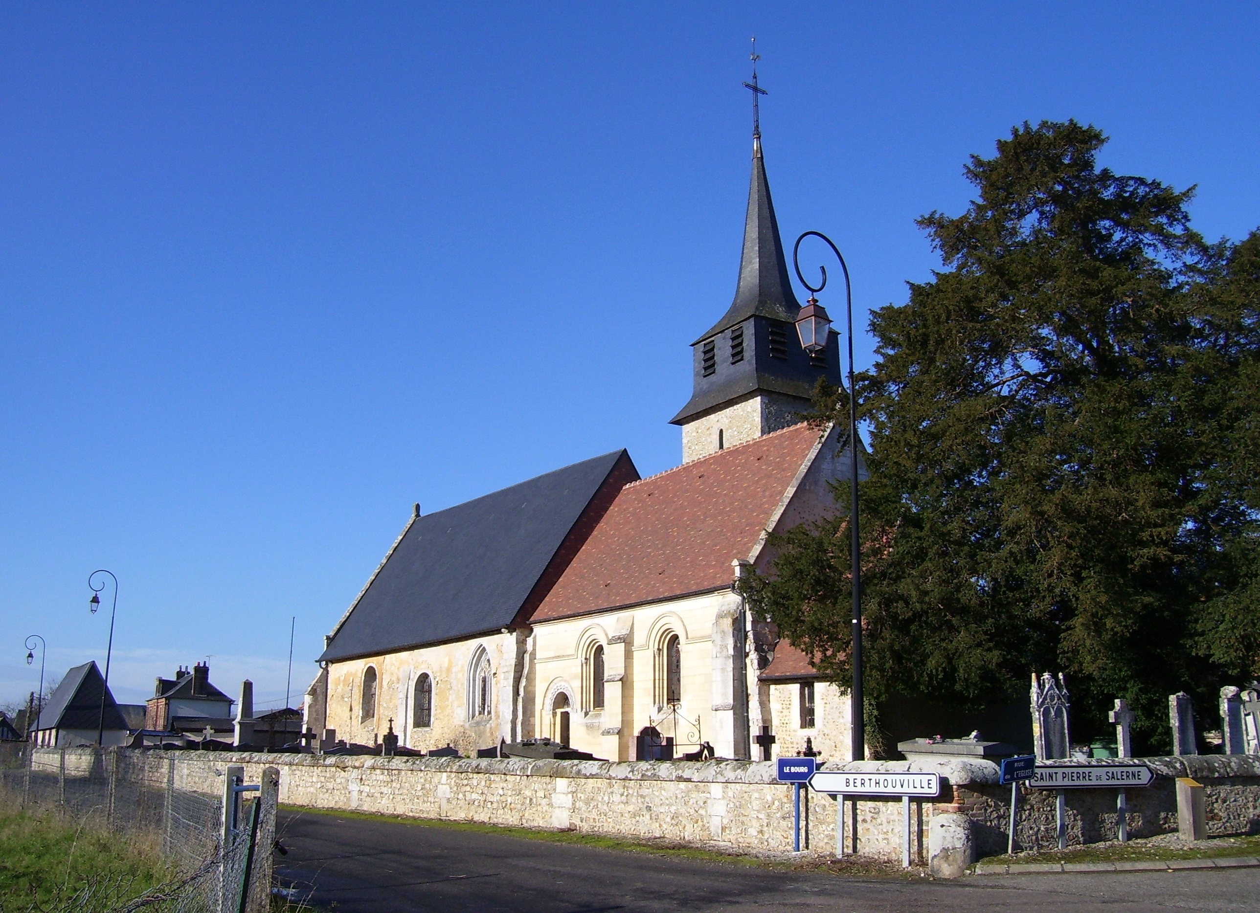 Church Saint-Cyr-et-Sainte-Julitte of Saint-Cyr-de-Salerne in the département Eure in Normandie, France. It was built in the 15th century and partially reconstructed in the 16th century. It is partially listed as Monument historique and the site of church, cemetery and yew trees is classified as site classé (natural monument).